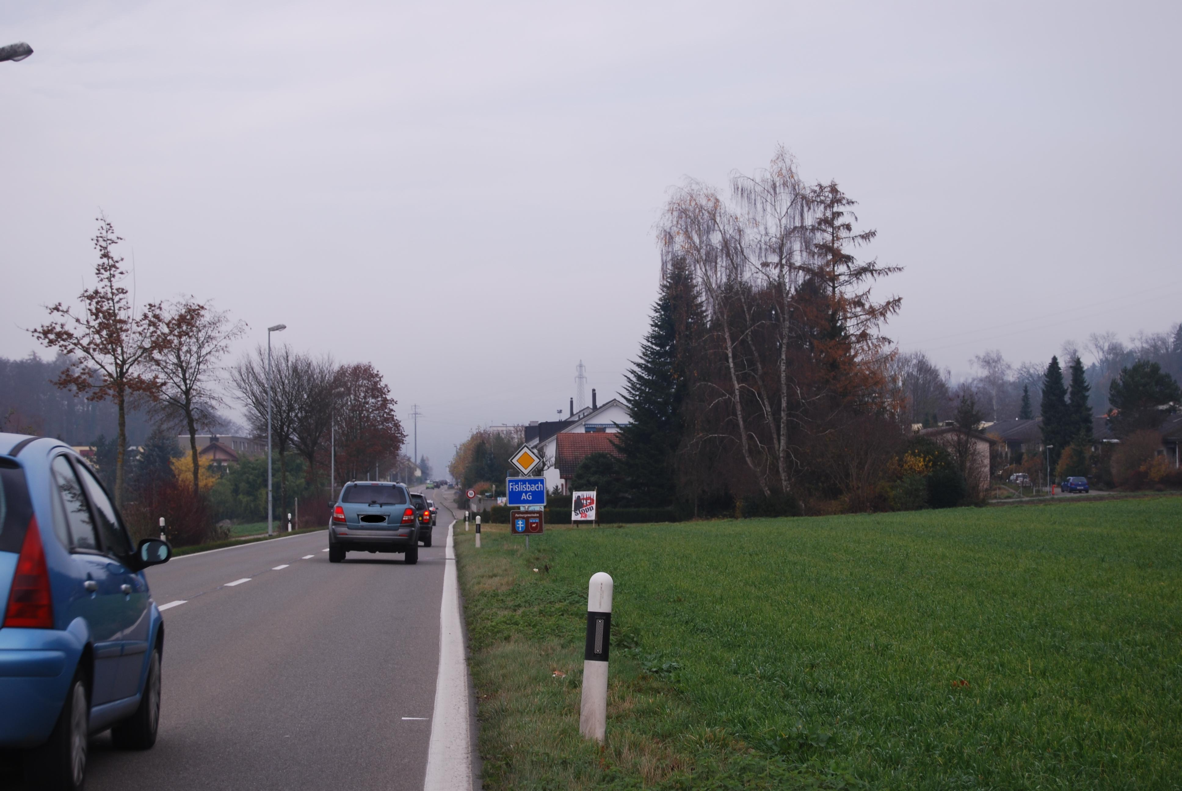 Fislisbach, canton of Aargau, SwitzerlandEsperanto: Fislisbach, Kantono Argovio, Svislando